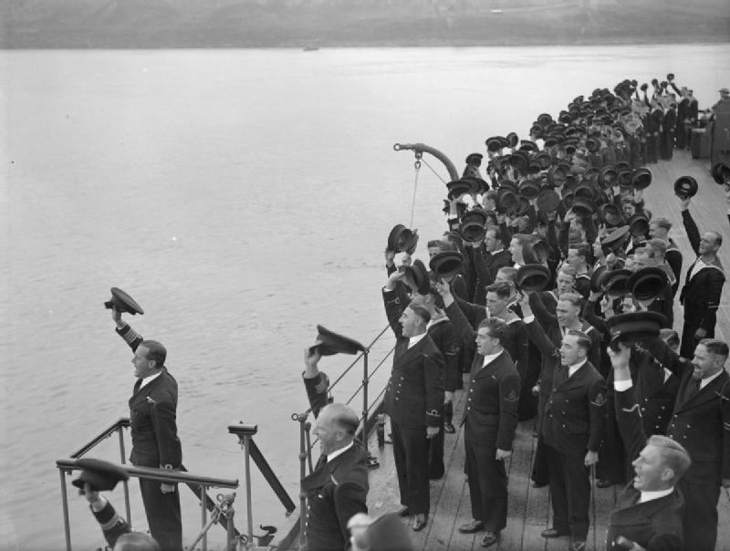 The Commanding Officer leading the cheers for the HM King George VI, on board the cruiser HMS PHOEBE, part of the Home Fleet at Scapa Flow.